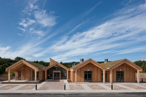 Featured images for Douglas Jarvie Clelland Wikipedia article